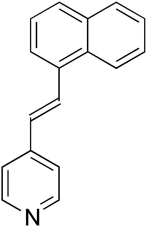 chemical structure of naphthylvinylpyridine